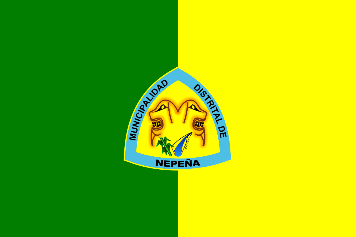 Nepeña district - Province Santa - Ancash Region